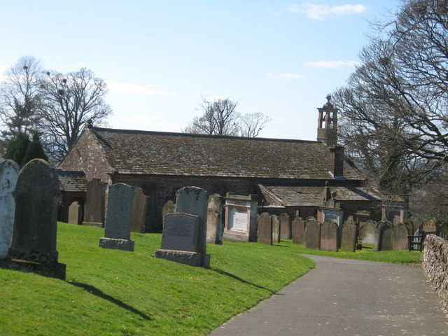 Tinwald Kirk Tinwald has a colourful history. Like many others, the rector of the Roman Catholic church suddenly became Protestant at the Scottish Reformation in 1560 and retained his charge. Another wonderful story is of 21 years old, Alexander Robeson of Kelso who was elected to serve as minister in the late 17th. century but Alexander did not wish to be minister and left. He was chased, restrained and return to the church where he later spent 65 years in his ministry until he died in 1721, aged 86.